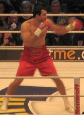 Professional boxer and heavyweight world champion Wladimir Klitschko in action, boxing against Hasim Rahman on December 13, 2008. I did this shot with enormous zoom, so the quality is as it is. But there are no free photos here of Klitschko in action, so I upload a fragment of this shot.